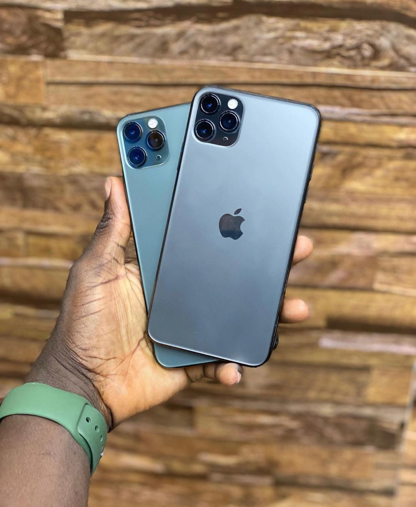 The iPhone 11 Pro and iPhone 11 Pro Max are smartphones designed, developed and marketed by Apple Inc. They are the 13th-generation flagship iPhones, succeeding the iPhone XS and iPhone XS Max, respectively.